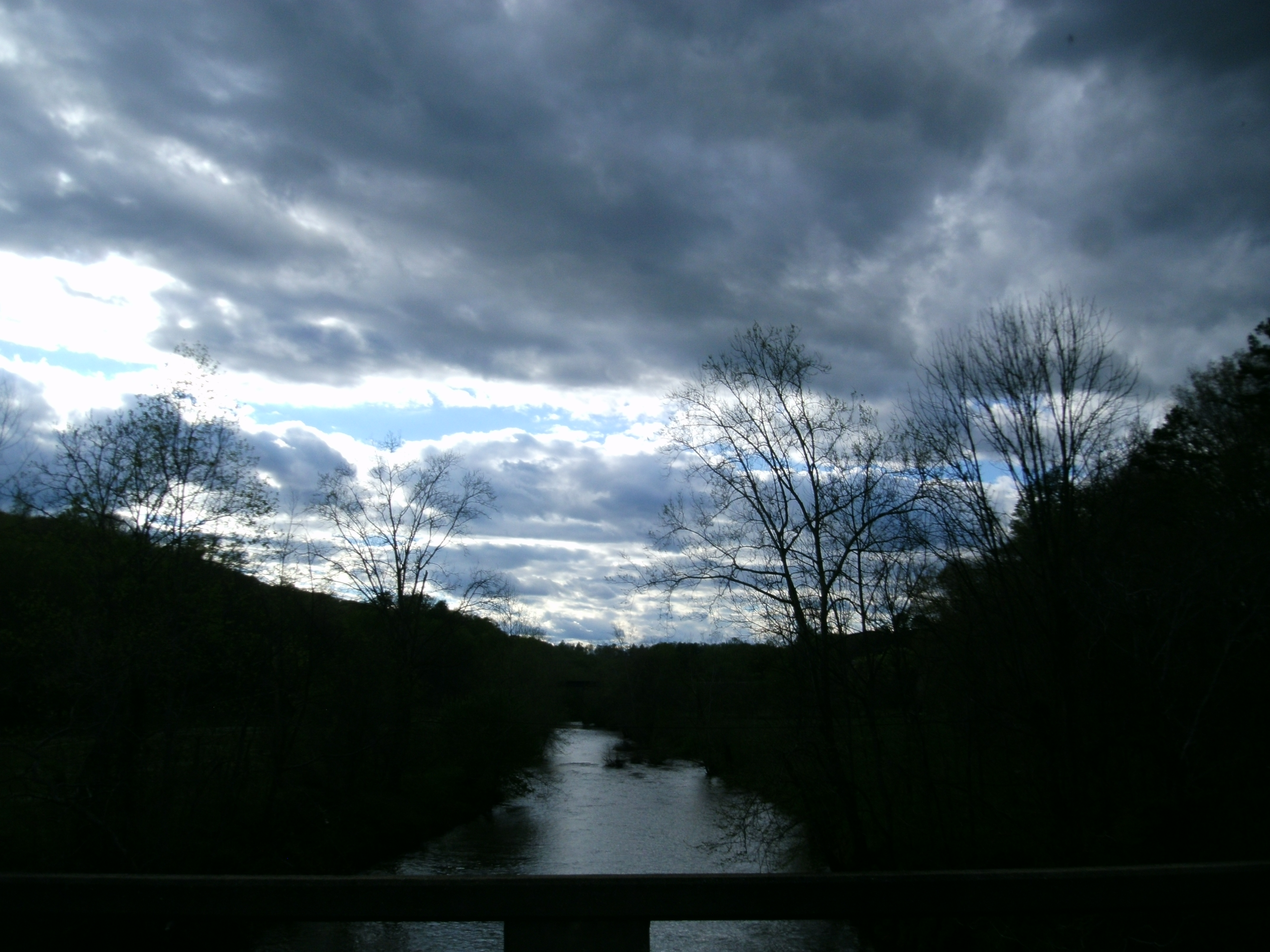 The Rockfish River from the Laurel road bridge looking west.